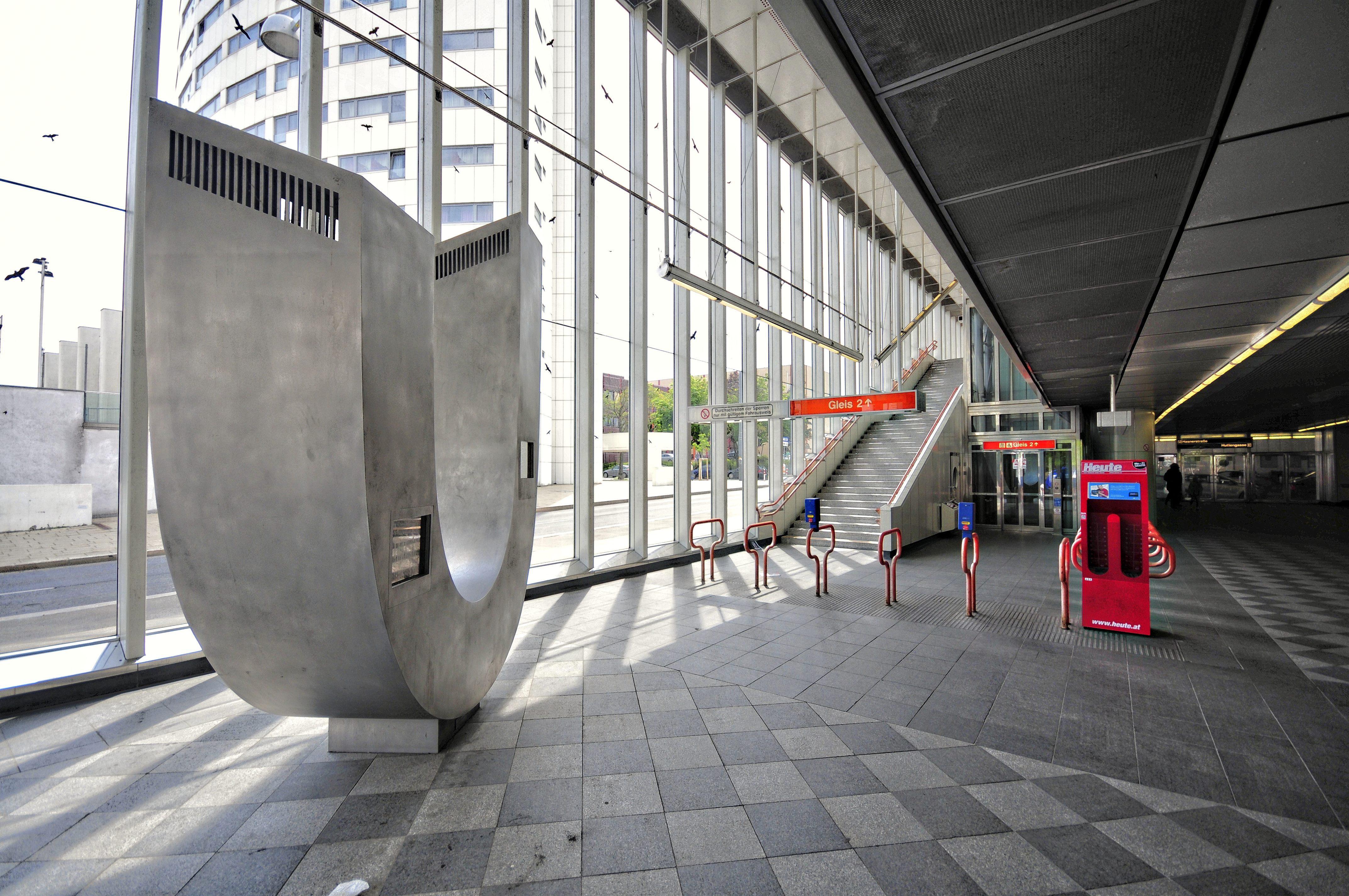 "U-Turn", Statue in Station Wien Ottakring